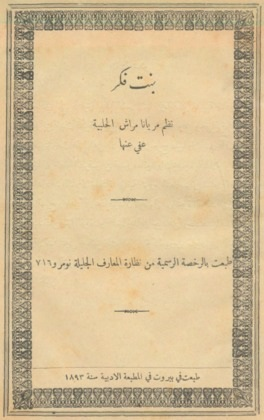 Collection of poetry.